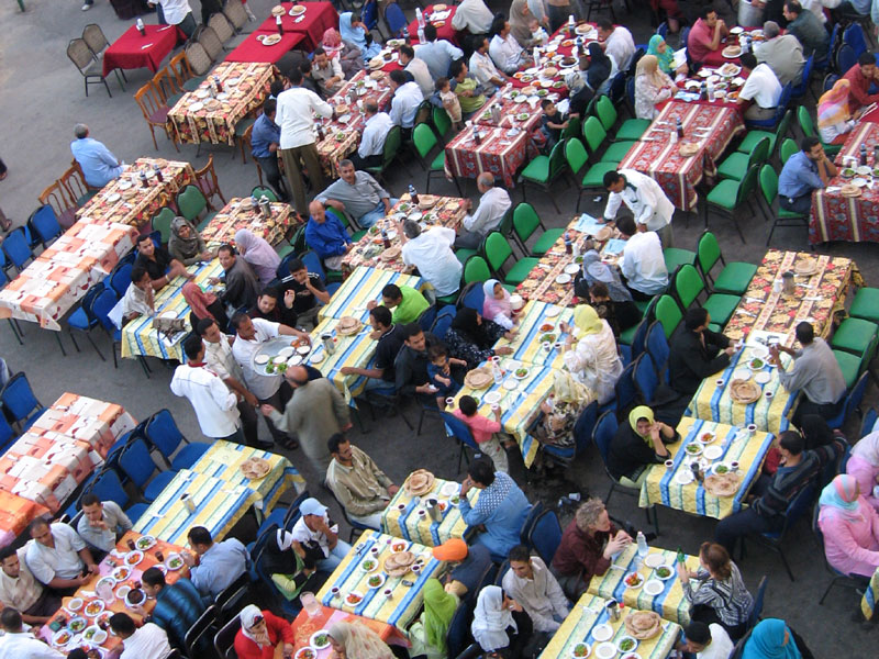 Muslims waiting for sunset during Ramadan in Cairo, Egypt